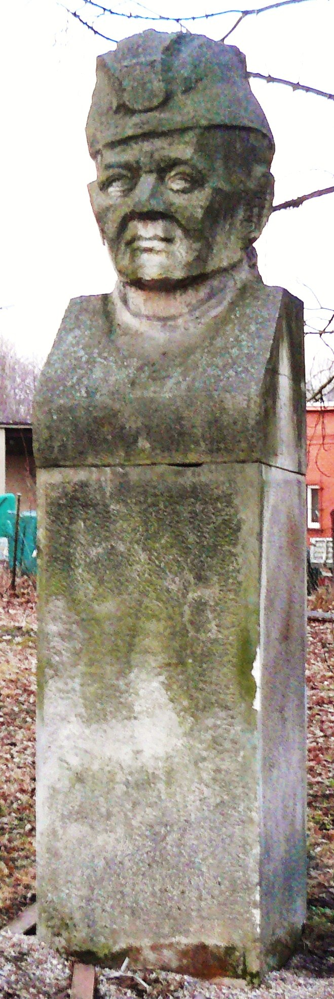 Soldier, Poznan, Cytadela.